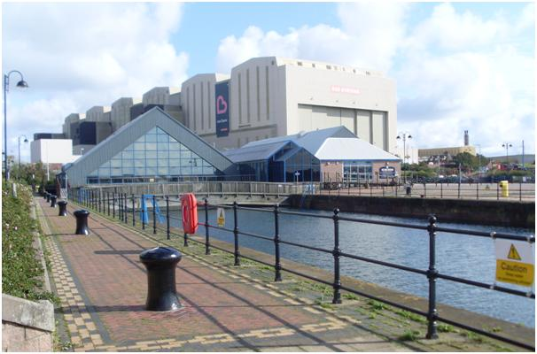 Photo of the Dock Museum and Devonshire Dock Hall, Barrow-in-Furness, England